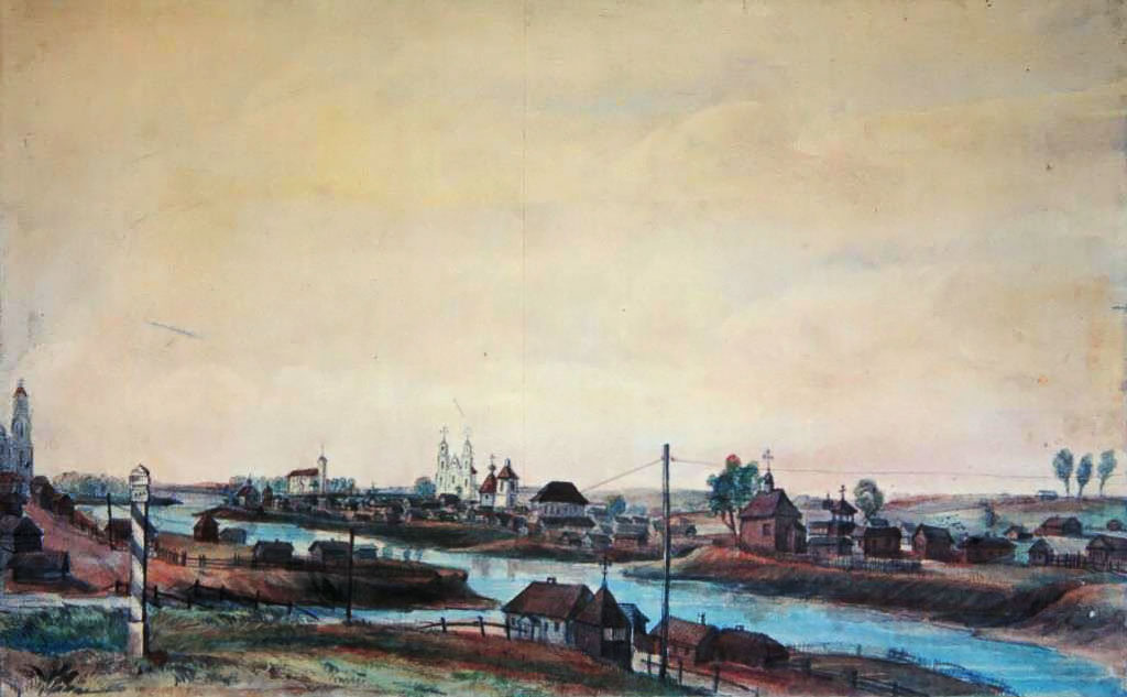 View of Druja